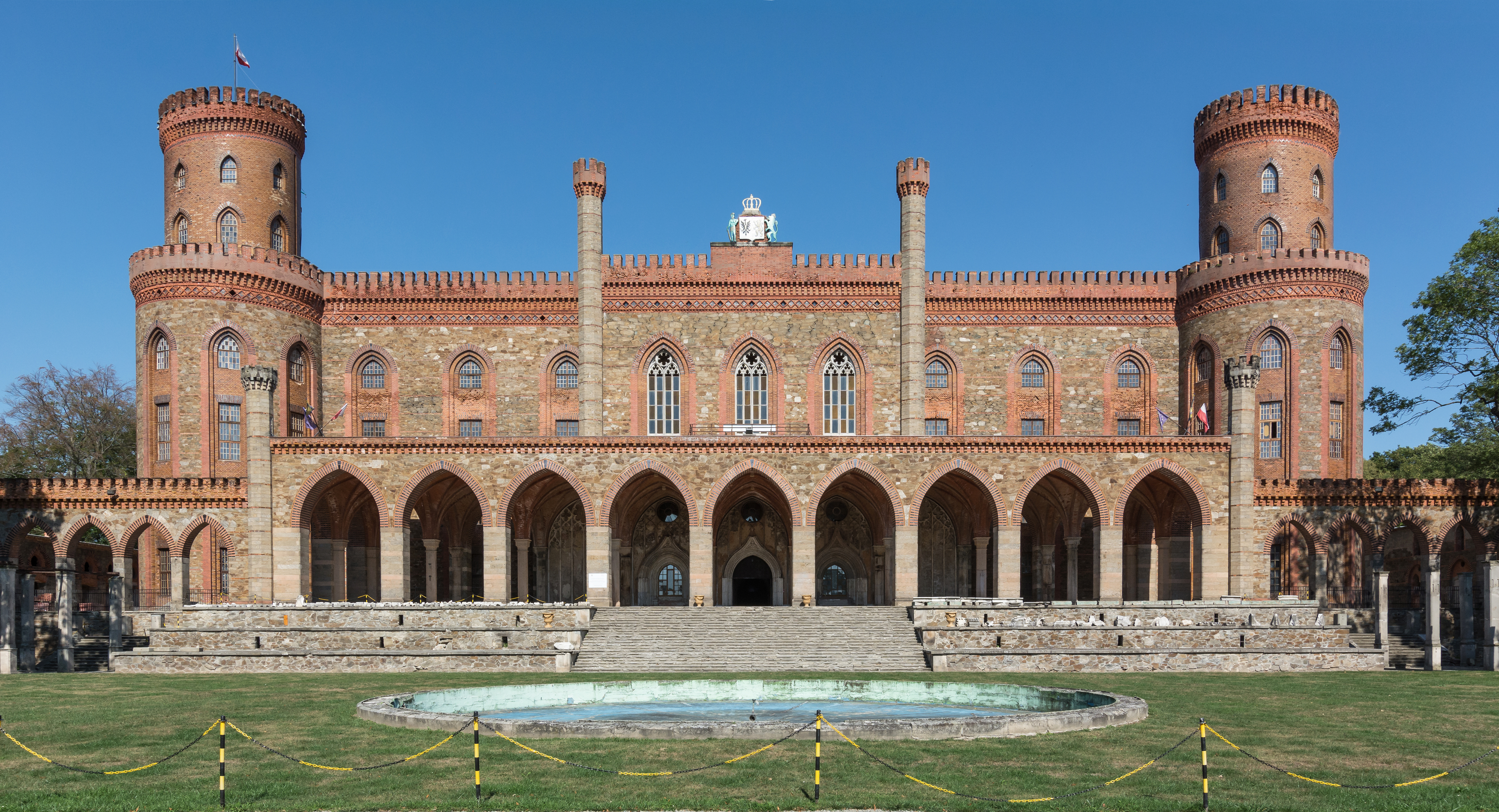 Kamieniec Ząbkowicki Castle